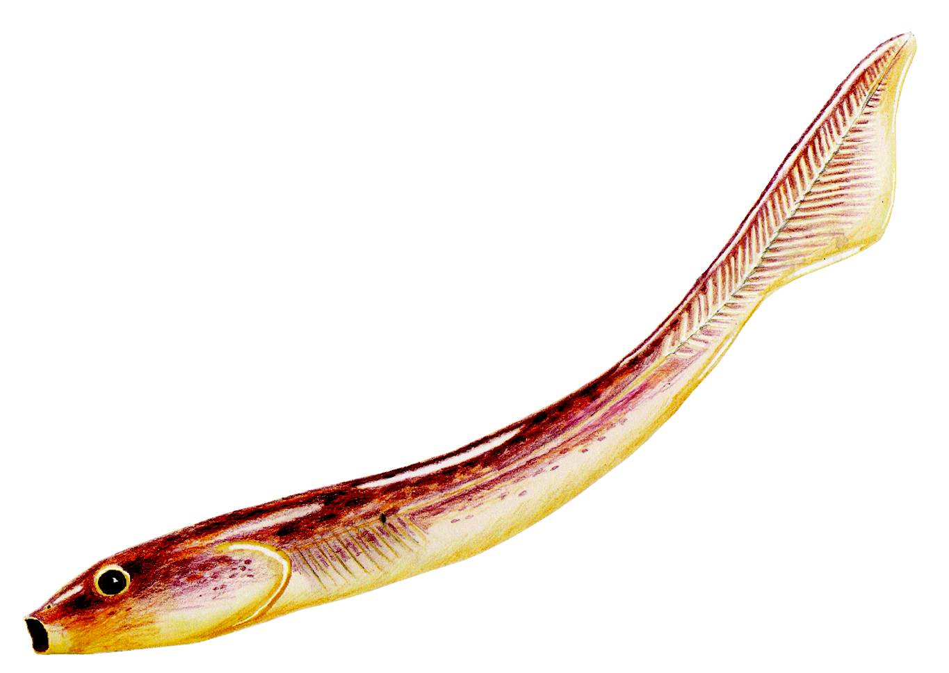 Life restoration of Palaeospondylus gunni